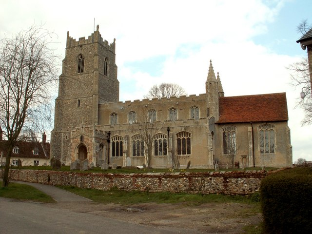 St Lawrence's parish church, Little Waldingfield, Suffolk, seen from the south